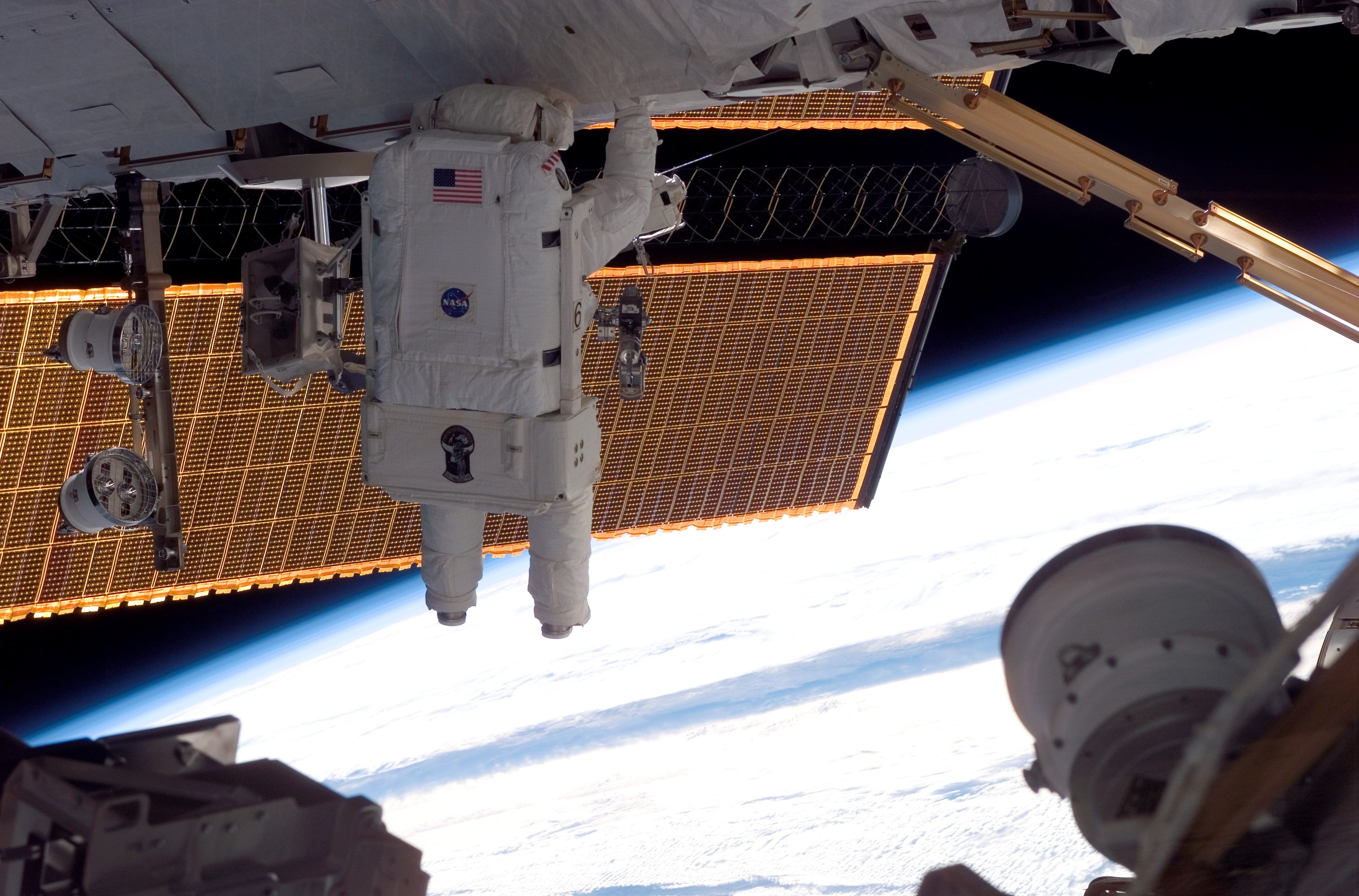 Astronaut Steven Swanson participate in the mission's second planned session of extravehicular activity, as construction resumes on the International Space Station